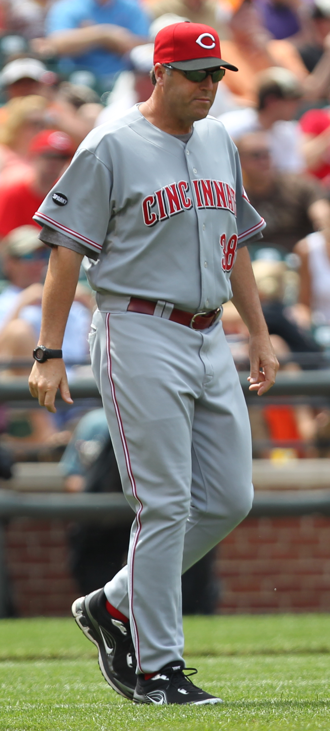 Bryan Price